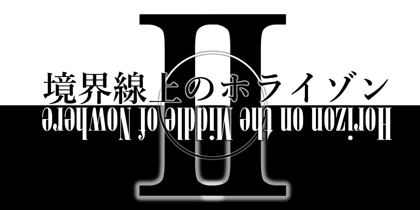 Logo of Kyōkai Senjō no Horizon.